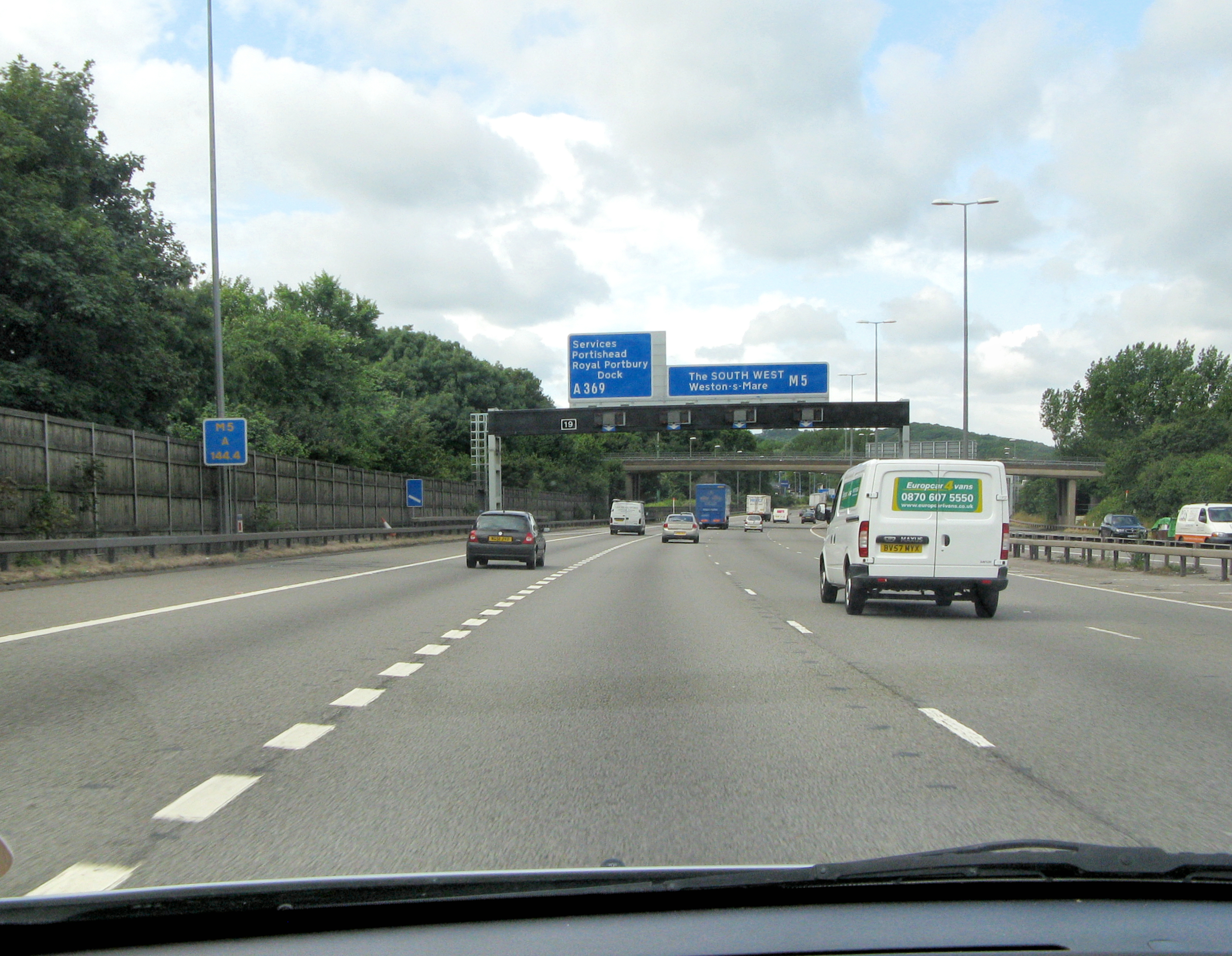 View from my car on the southbound M5 motorway approaching the Gordano Services, just south of the Avonmouth Bridge, Bristol, England. THE SLIP LANE on the left serves the Gordano Services and the A369 road, marked by the closely-dashed white dashes (with the dark car and white van on it) . The single diagonal line on a blue background indicates 100 metres to go before the exit (useful in fog or rain). (The carriageway markings are the well-spaced-out white dashes). THE OVERHEAD GANTRY says “The SOUTH WEST” meaning the south west of England. The junction number is shown as 19 (the next exit would be 20 for Clevedon). Below the blue down-pointing arrows on the gantry crosses can be lit up to bar a carriageway. THE BLUE NOTICE on the far left is not for the motorist, it helps maintenance, police, planners etc locate a point on the motorway. “A” means the southbound carriageway and “144.4” is a distance from a reference point. Photographed by Adrian Pingstone in July 2009 and placed in the public domain.